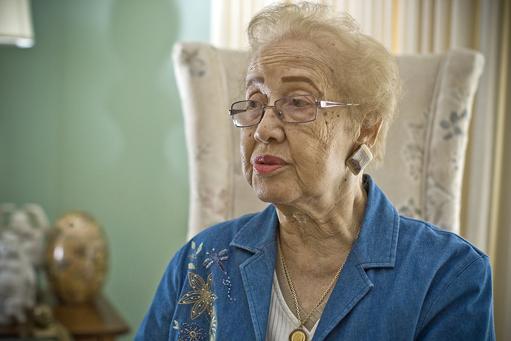 Katherine Johnson's work at NASA's Langley Research Center spanned 1953 to 1986 and included calculating the trajectory of the early space launches.